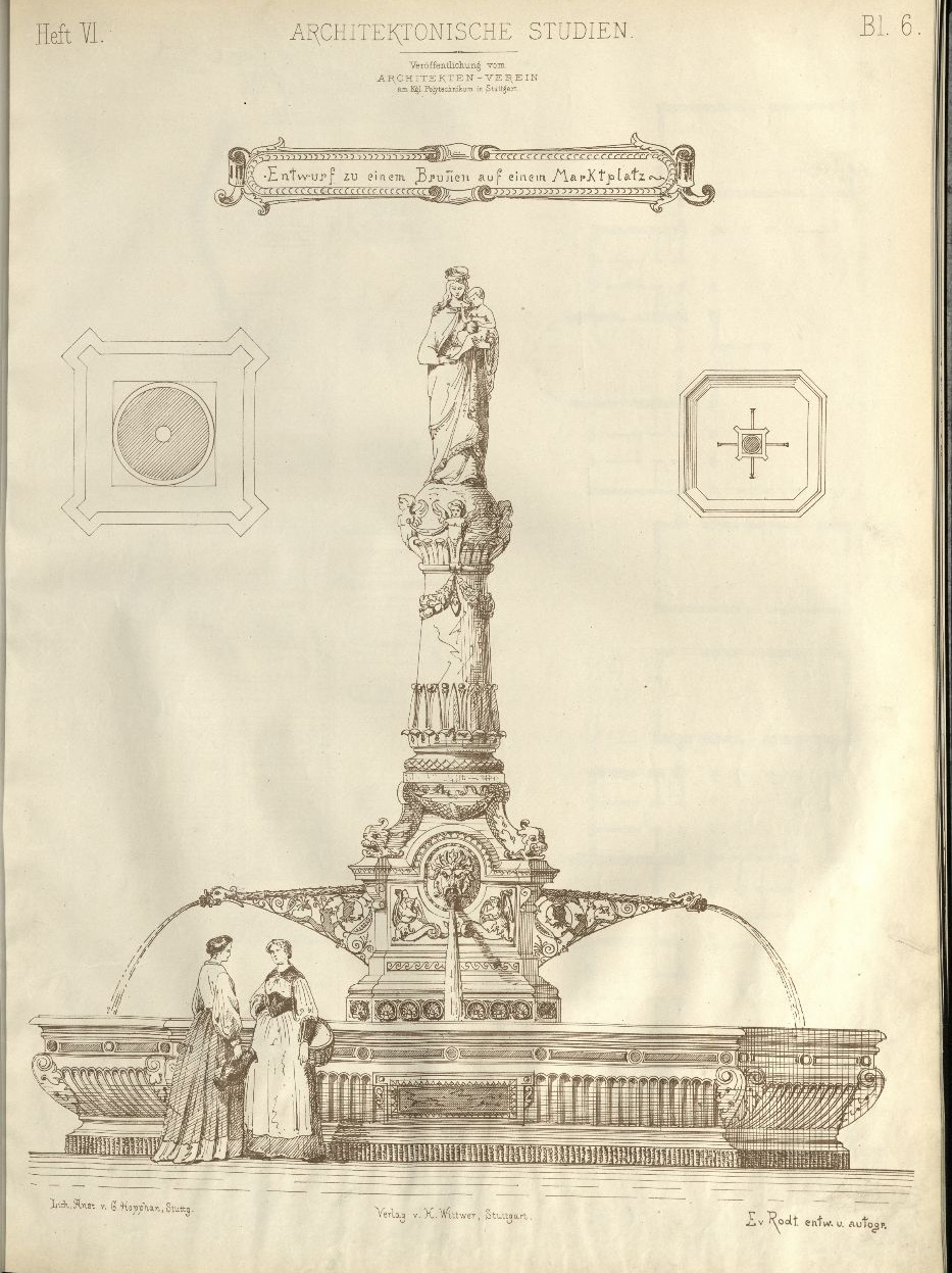 fontaine